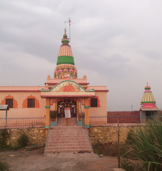 Heljai Mata Mandir